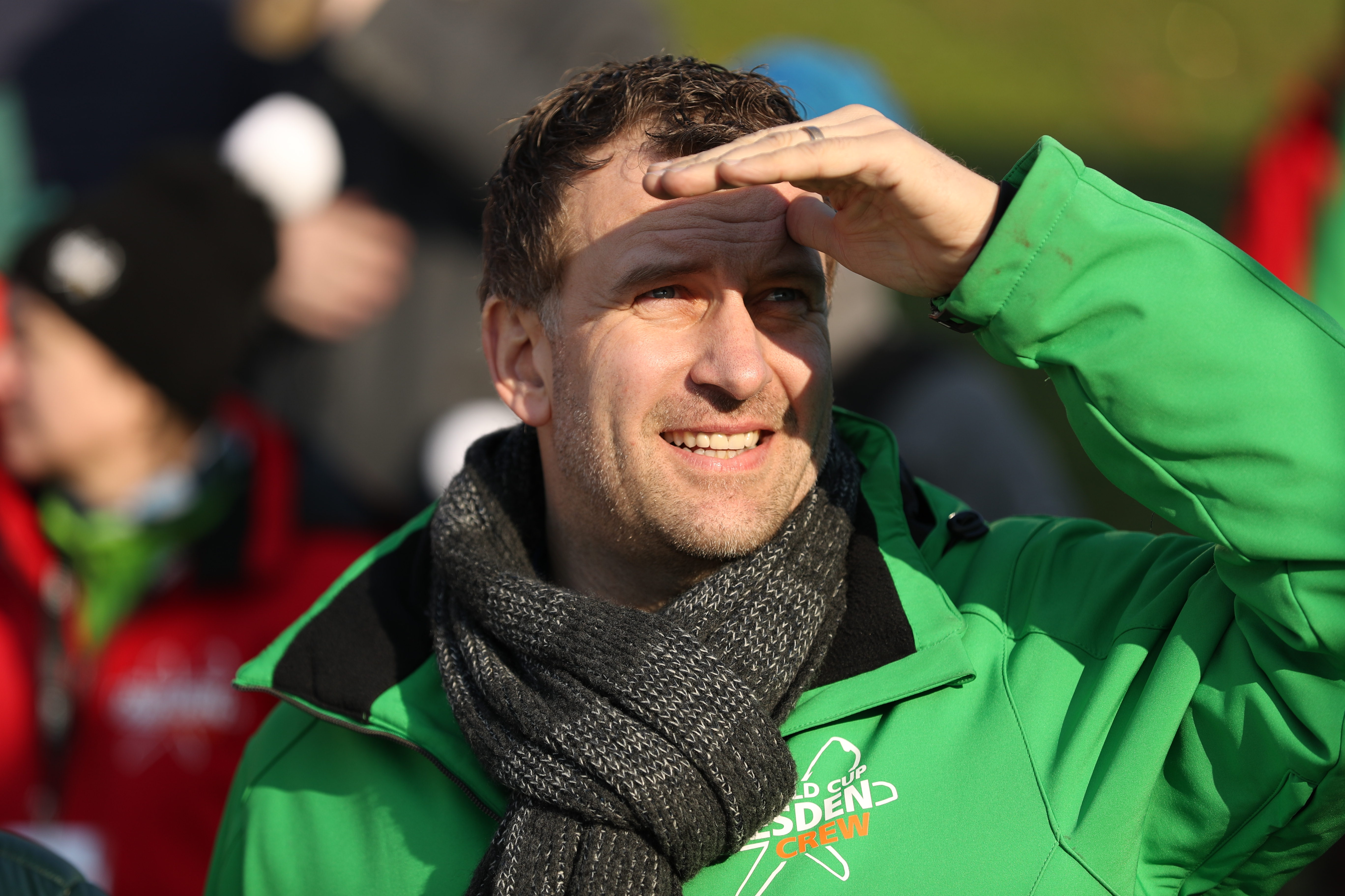 Mens Team Sprint (Final) at the FIS Cross-Country World Cup Dresden 2018: René Kindermann